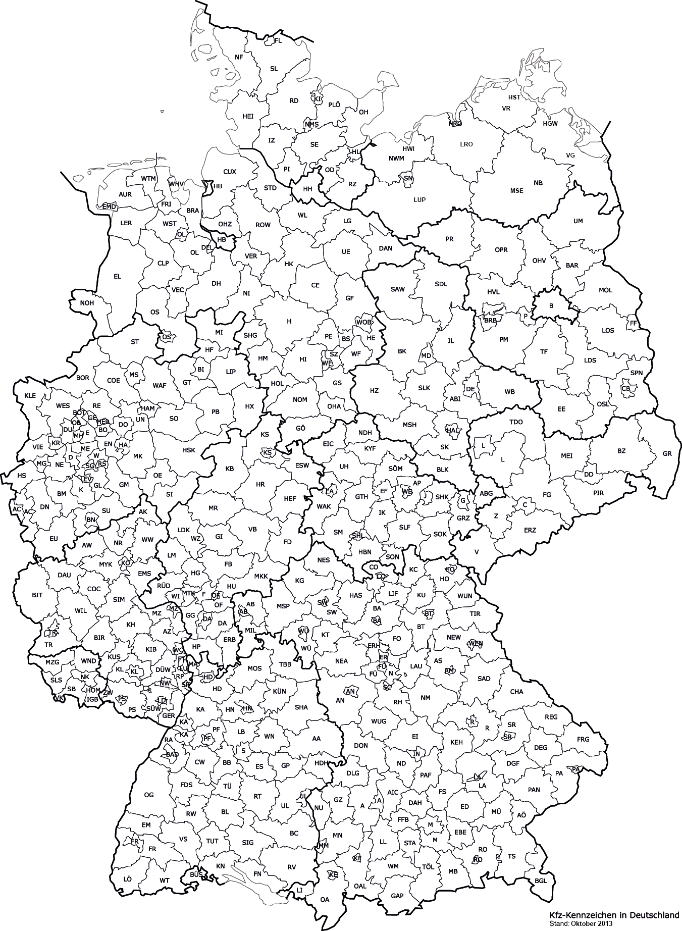 Map of German license plates in October 2013 – without old letter codes which are allowed again